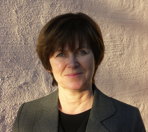 Isabella Nilsson, at that date the soon-to-be director of the Gothenburg Museum of Art.